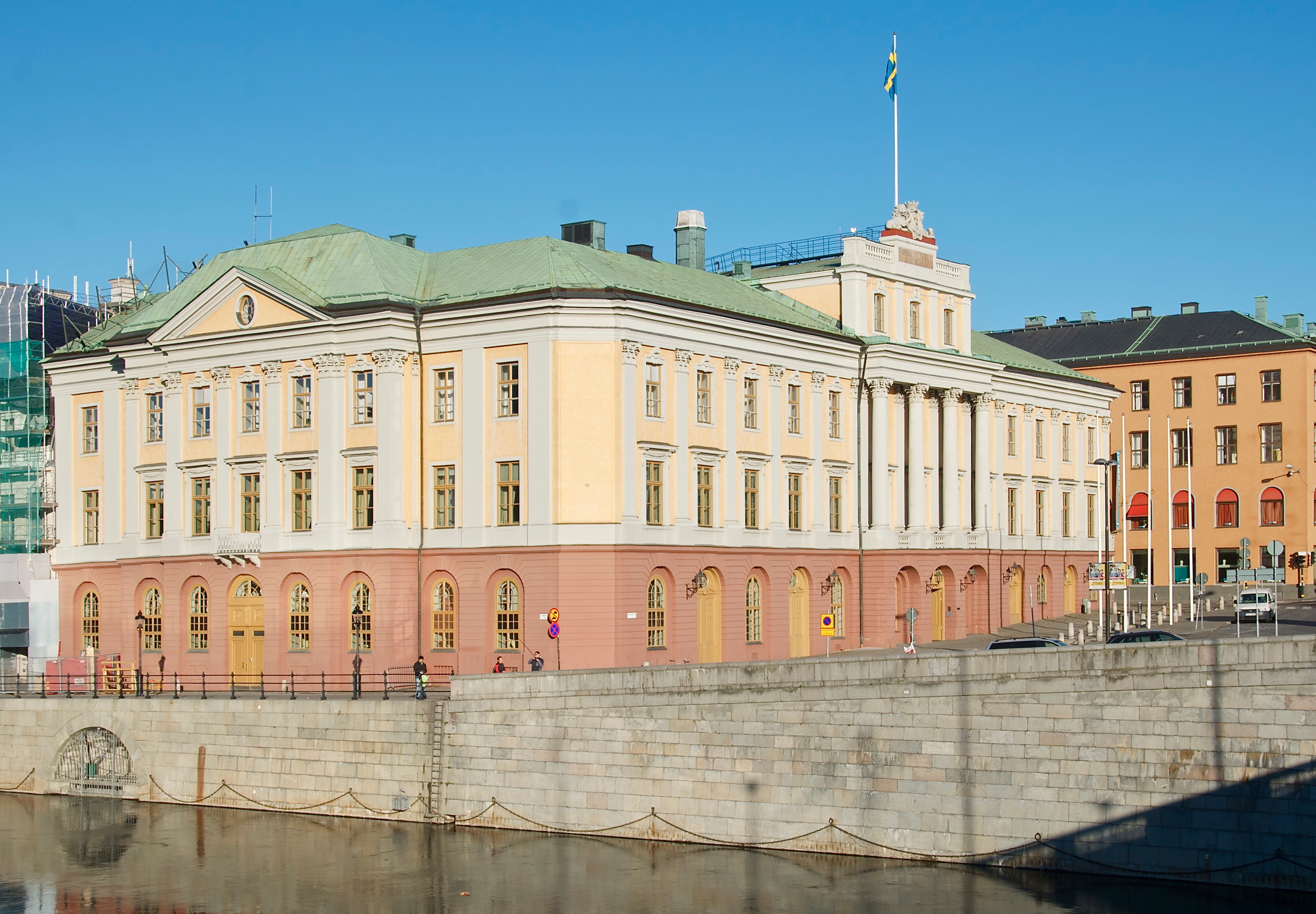 Arvfurstens palats ("The Hereditary Prince's Palace") is a palace located at Gustav Adolfs Torg in central Stockholm designed by Erik Palmstedt. The palace was originally the private residence of Princess Sophia Albertina. Since 1906 the palace has served as the seat of the Ministry for Foreign Affairs.